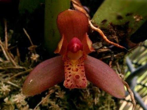 Mormolyca rufescens (former Max. rufescens) - variety belonging to Maxillaria abelei group of M. rufescens complex